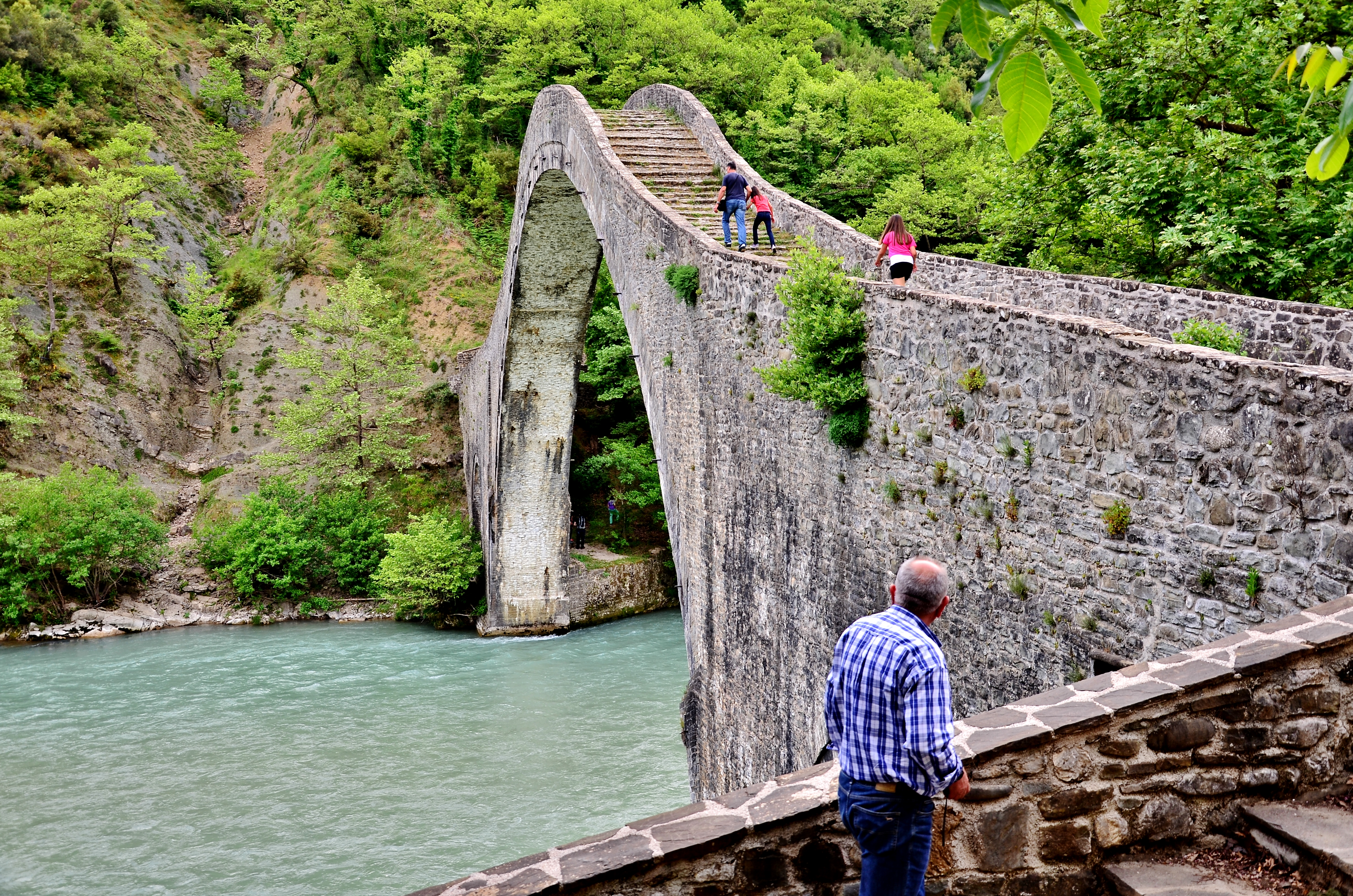 The historical bridge of Plaka, at the borders of Arta and Ioannina Prefectures